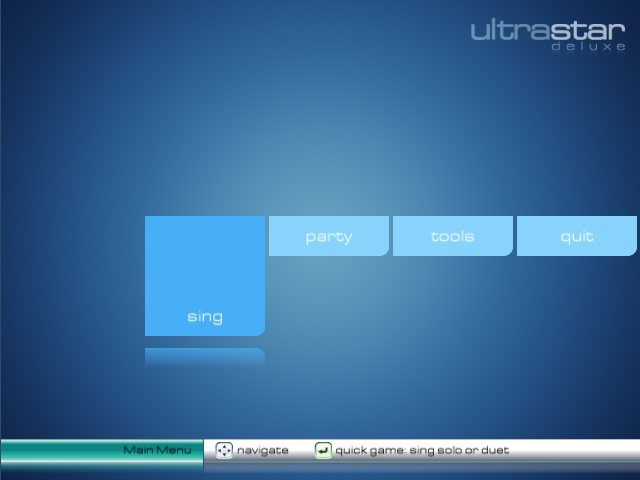 Screenshot of UltraStar Deluxe 1.0.1, I did those Skins, I'm member of the developer team - so the copyright should be okay, I guess.